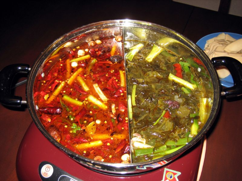 Traditional Chengdu-style hotpot